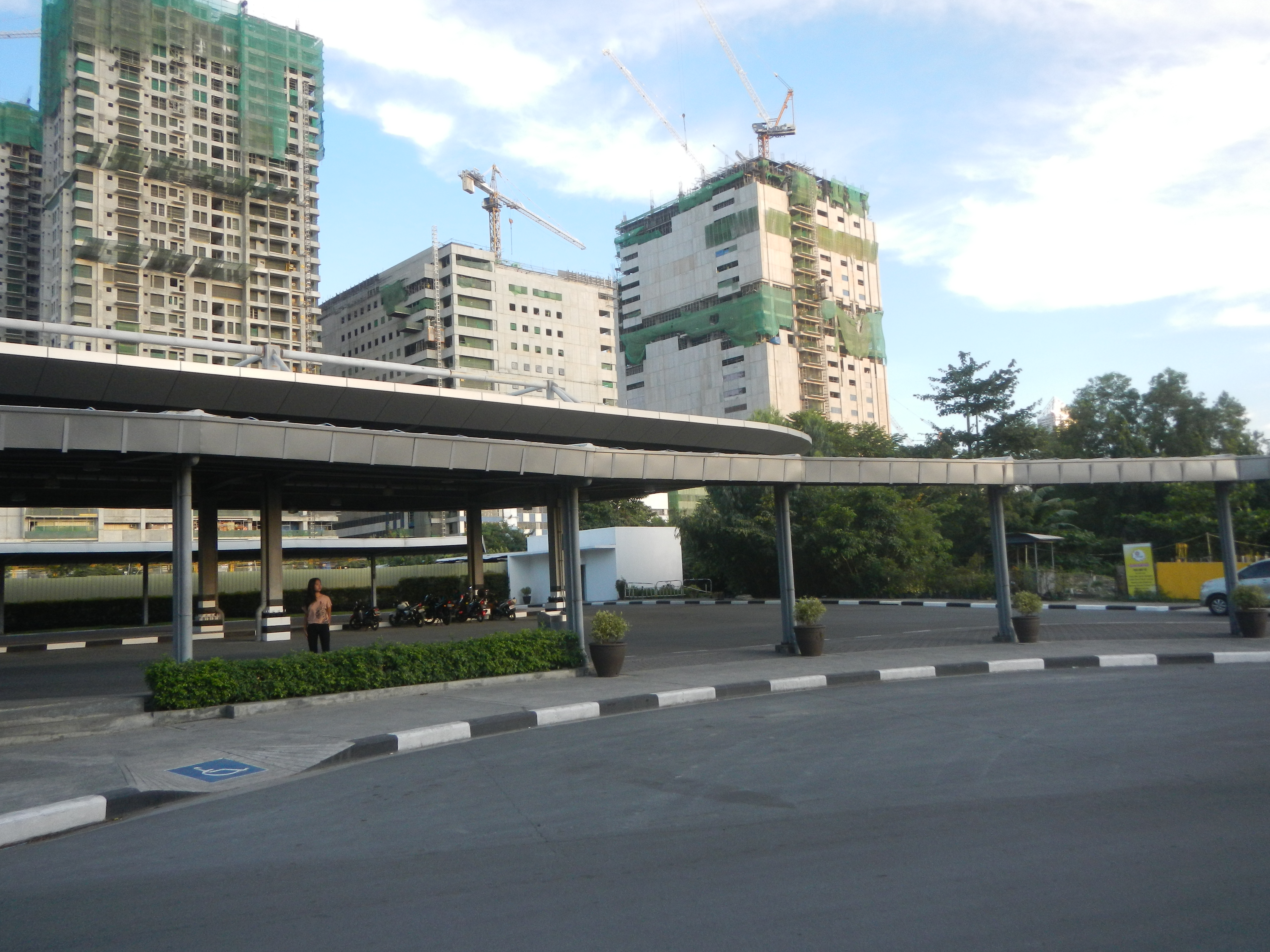 A. P. Reyes Street 14°34'28"N 121°0'59"E Philippine Racing Club, Inc. Property (Makati) 14°34'25"N 121°1'1"E Carmona Sports Complex 14°34'31"N 121°1'0"E A.P. Reyes Avenue cor. P. Pascua Street 14°34'31"N 121°1'0"E Circuit Makati 14°34'29"N 121°1'9"E Carmona, Makati Carmona 14°34'32"N 121°1'6"E Circuit Makati A. P. Reyes Street Hippodromo Street corner Theatre Drive to Riverfront Drive, West Gala Drive to South Avenue A. P. Reyes Street Sapote Street Ayala Malls Ayala Malls Circuit Lane Ayala Land Makati Central Business District from J.P. Rizal Avenue Makati Central Business District (Downtown Makati) 14°33'21"N 121°1'16"E List of barangays of Metro Manila, Legislative districts of Makati, Barangay Pio del Pilar 14°33'13"N 121°0'37"E Carmona, Makati Carmona 14°34'32"N 121°1'6"E Olympia 14°34'19"N 121°1'11"E Tejeros 14°34'18"N 121°0'48"E Kasilawan 14°34'38"N 121°0'54"E Makati City (Note: Judge Florentino Floro, the owner, to repeat, Donor Florentino Floro of all these photos hereby donate gratuitously, freely and unconditionally all these photos to and for Wikimedia Commons, exclusively, for public use of the public domain, and again without any condition whatsoever).